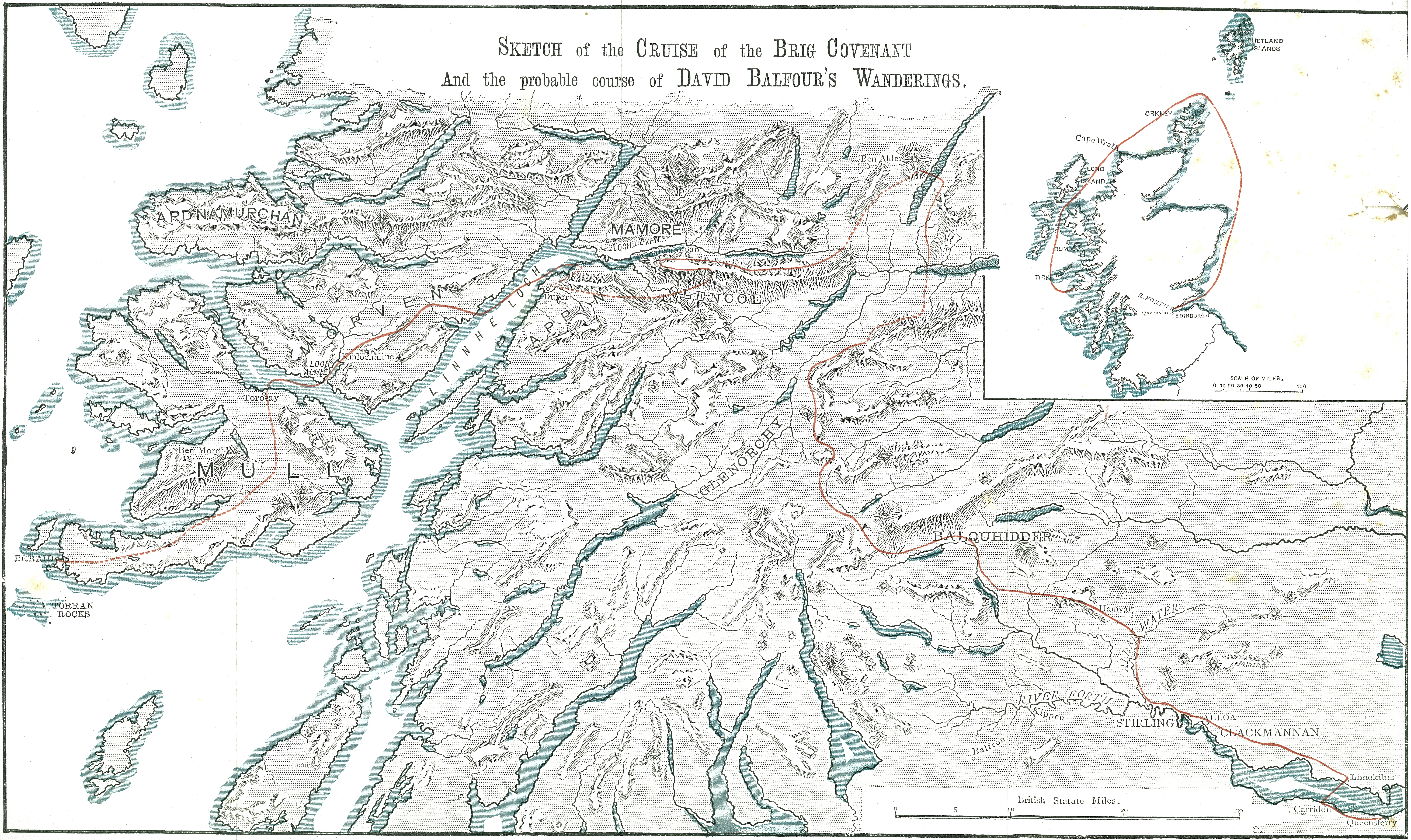 Sketch of the Cruise of the Brig Covenant And the probable course of DAVID BALFOUR'S WANDERINGS.